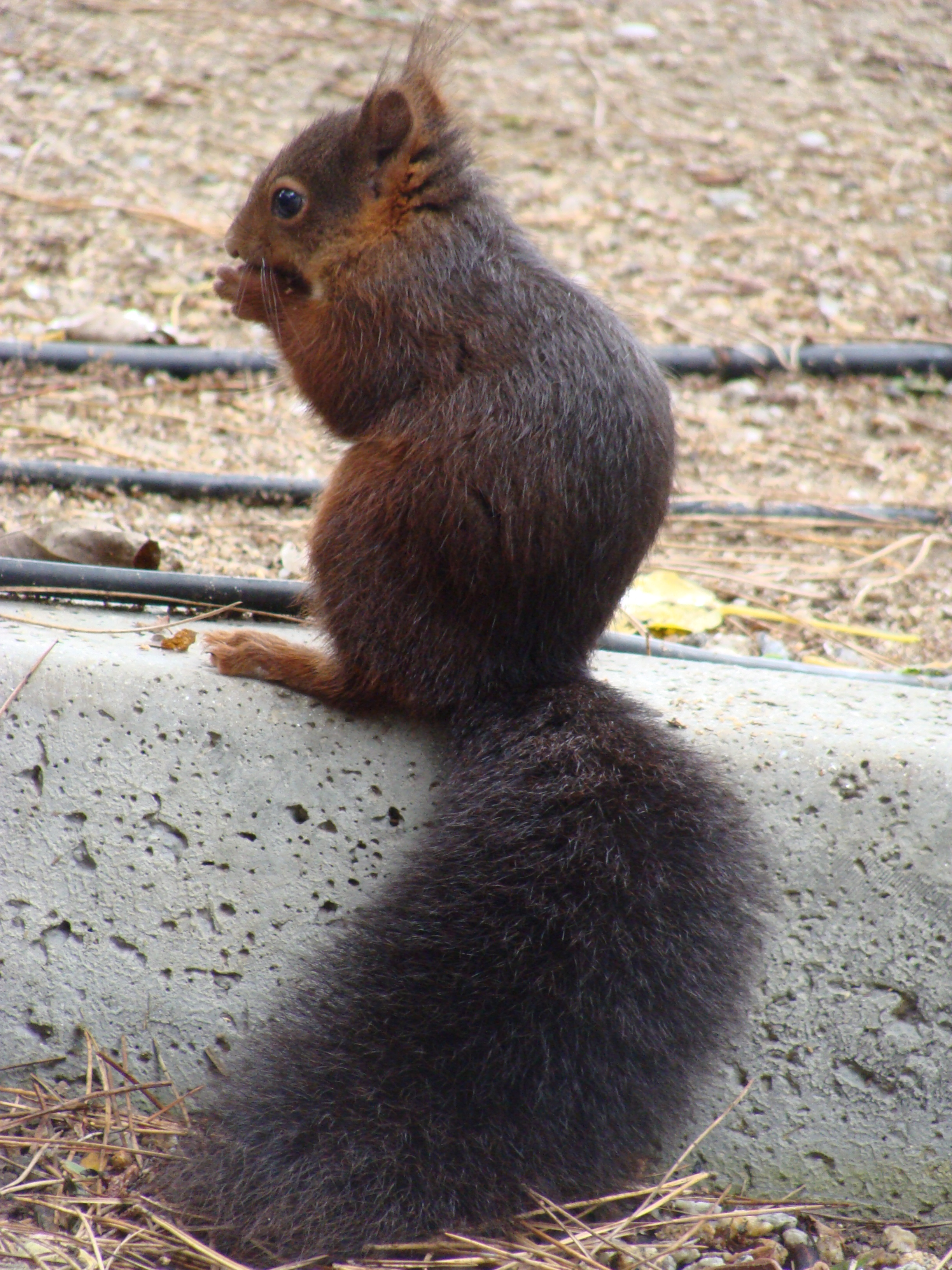 Sciurus vulgaris (squirrel) in A Pobra do Caramiñal (Corunna, Spain).